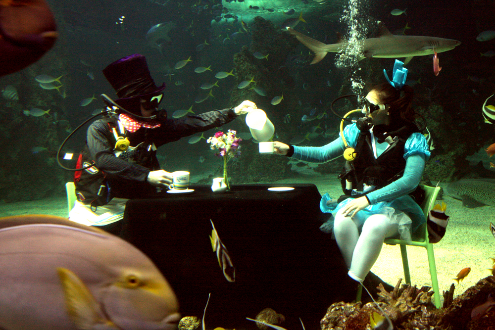 Sydney Aquarium hosts a Mad Hatter's tea party under the sea A Mad Hatter’s tea party under the sea... Sydney Aquarium divers indulge in a biggest morning tea under the sea... Sydney Aquarium hosted its very own Mad Hatter’s tea party under the sea in its iconic Great Barrier Reef exhibit today Surrounded by some of Australia’s most magical marine life, Sydney Aquarium divers enjoyed their very own tea party underwater in support of Cancer Council’s Australia’s Biggest Morning Tea, dressed as characters from the Mad Hatter’s Tea Party. Following this, the resident sharks in the Great Barrier Reef received their own morning tea, a sight not to be missed! In celebration of one of Australia’s best-loved fundraising events, Sydney Aquarium’s Mad Hatter’s tea party is part of a public morning tea to raise money for the Cancer Council’s Australia’s Biggest Morning Tea. All proceeds from marine animal inspired cupcakes sold at Sydney Aquarium will be donated to the Cancer Council to help raise vital funds for cancer research, prevention and support services. The public morning tea was served from 9am until 12pm in the Aqua Café and Great Barrier Reef exhibit. Coverage: An underwater Mad Hatter’s Tea Party inside the Great Barrier Reef Exhibit amongst some of Australia’s most iconic marine life Resident sharks in the Great Barrier Reef receiving their very own morning tea Interview with: Sydney Aquarium General Manager, Jade McKellar Australia’s Biggest Morning Tea ambassador and passionate supporter of Cancer Council, Jacqueline Stene, who last year raised over $10K and has raised $87.5K since her first morning tea at her home Websites Sydney Aquarium Australia's Biggest Morning Tea Darling Harbour official website Eva Rinaldi Photography Flickr Eva Rinaldi Photography Music News Australia Hausmann Communications